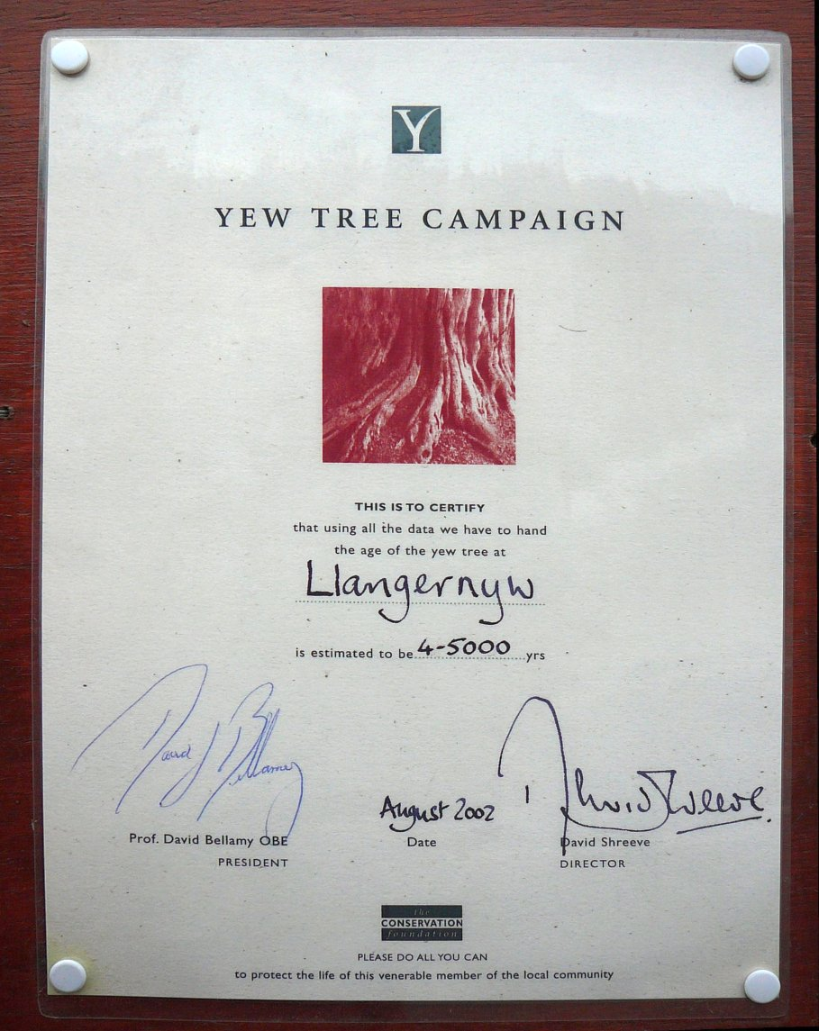 The certificate stating the age of the Llangernyw Yew